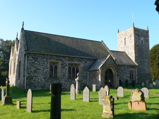 Sant Dogfan, Llanrhaeadr ym Mochnant St. Dogfan's church was mentioned in the Norwich Taxation of 1254. It was restored between 1879 and 1882. It has "moved" quite a few times - originally in Denbighshire until 1974, in Clwyd until 1996 and now in Powys.